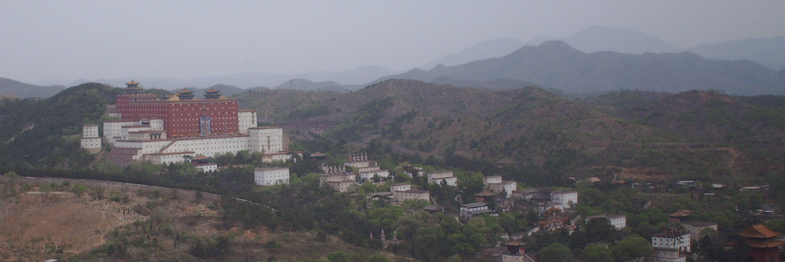 Lama temple in Chengde, Hebei